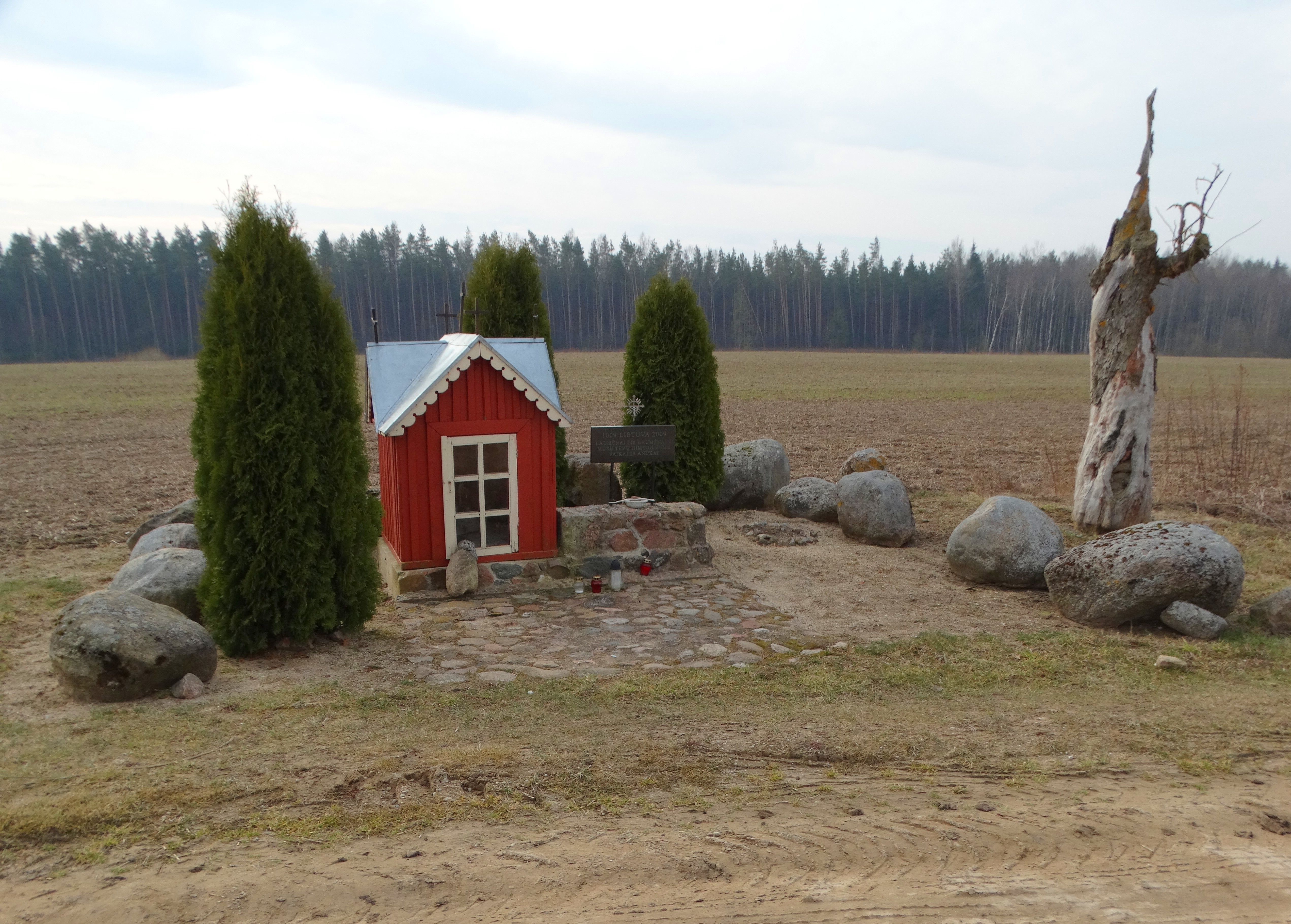 Wayside chapel, Laumėnai II, Akmenė district, Lithuania